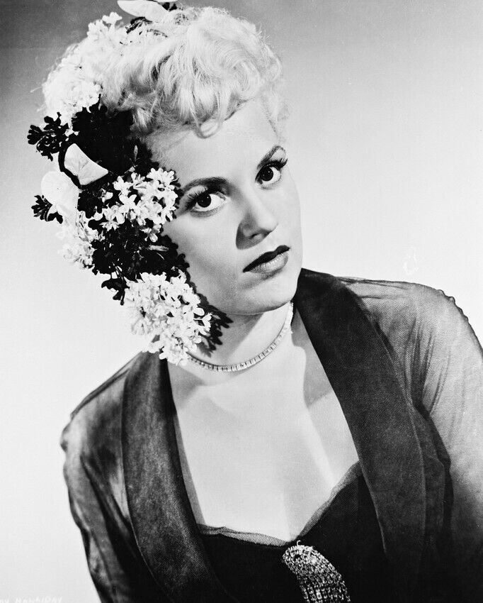 Publicity photo of Judy Holliday